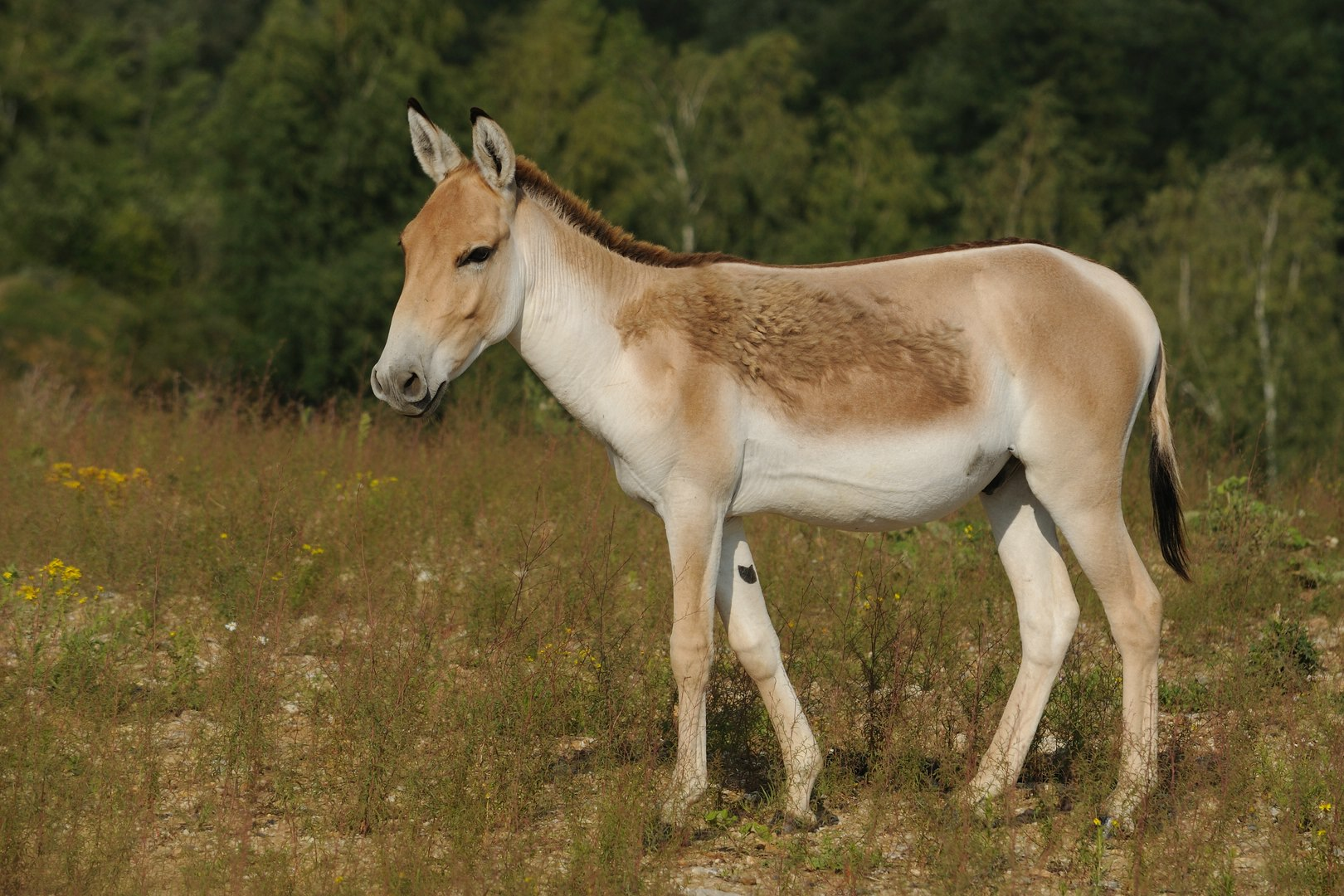 Kulan, asian Half-Donkey